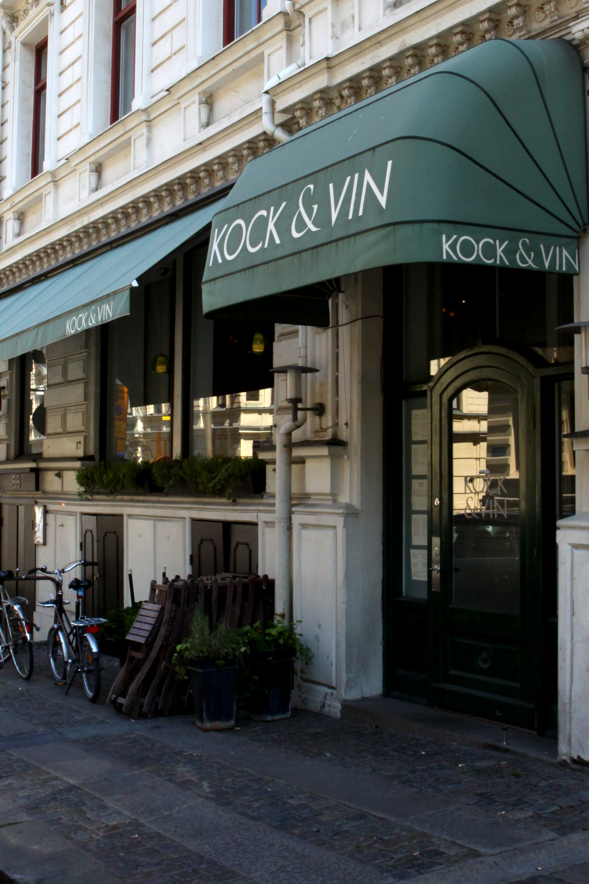 The Restuarant "Kock & Vin" in Gothenburg, Sweden